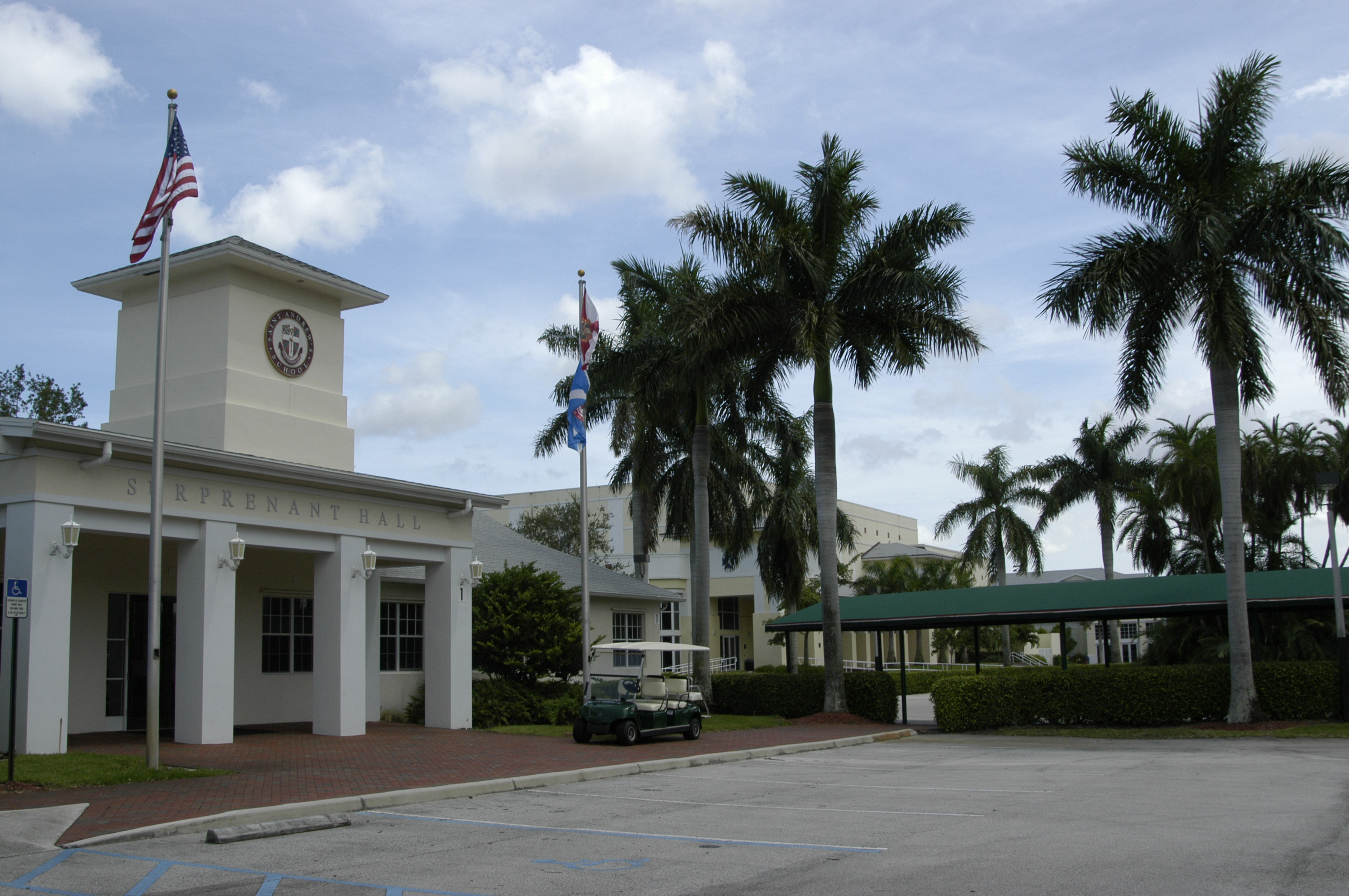 St. Andrews School (Boca Raton, Florida, USA)